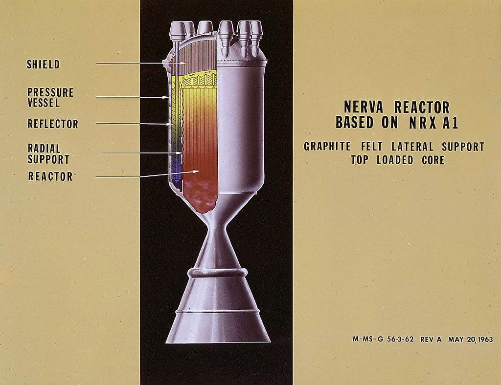 This artist's concept from 1963 shows a proposed NERVA (Nuclear Engine for Rocket Vehicle Application) incorporating the NRX-A1, the first NERVA-type cold flow reactor. The NERVA engine, based on Kiwi nuclear reactor technology, was intended to power a RIFT (Reactor-In-Flight-Test) nuclear stage, for which Marshall Space Flight Center had development responsibility.